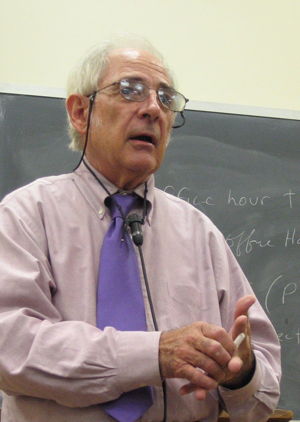 Photograph of John Searle at the Faculty of Christ Church, Oxford